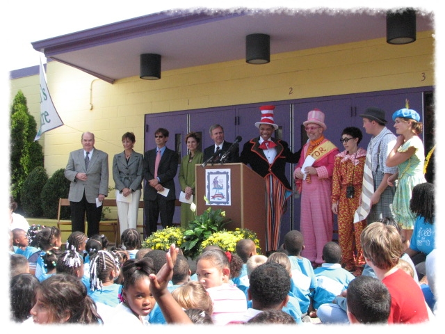 Mayor Bill Purcell at the Grand Re-Opening of the Nashville Children's Theatre